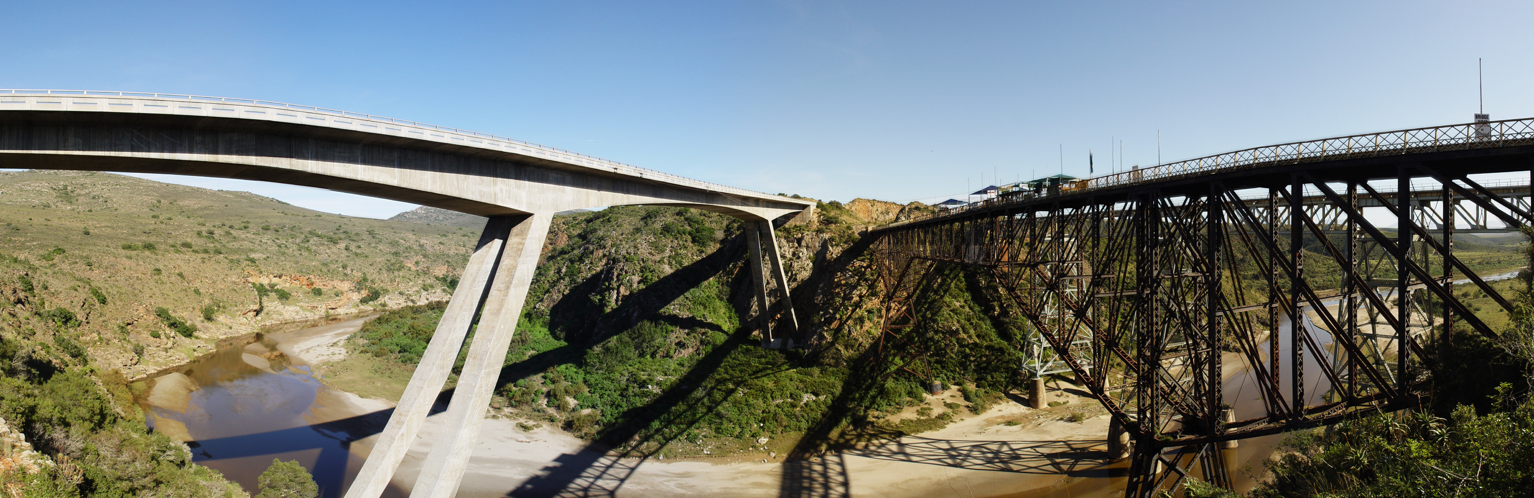 The Gourits River Bridge near Mossel Bay, Western Cape, South Africa